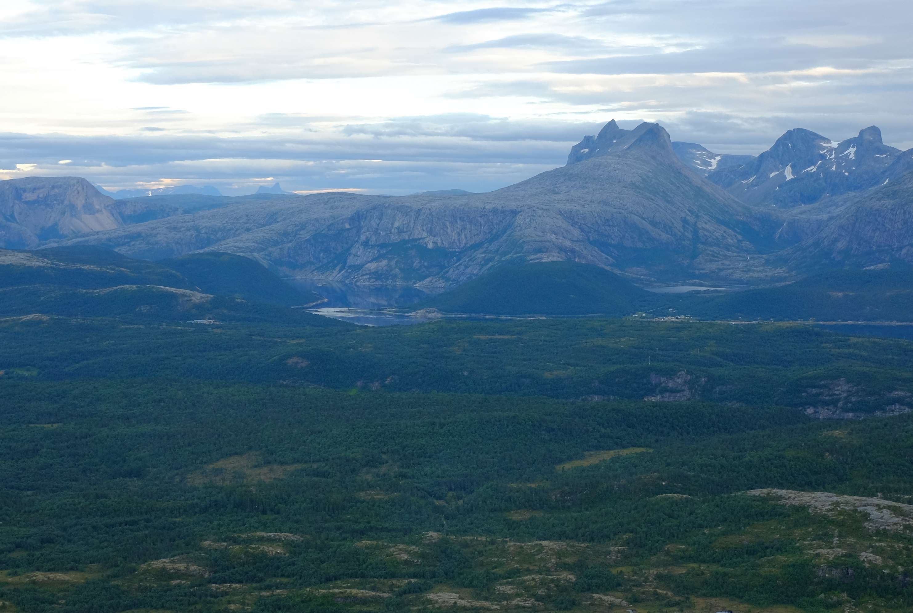 Elvefjorden is a fjord of Ytre Sundan on the south side of Saltfjorden, Bodø, Nordland, Norway.